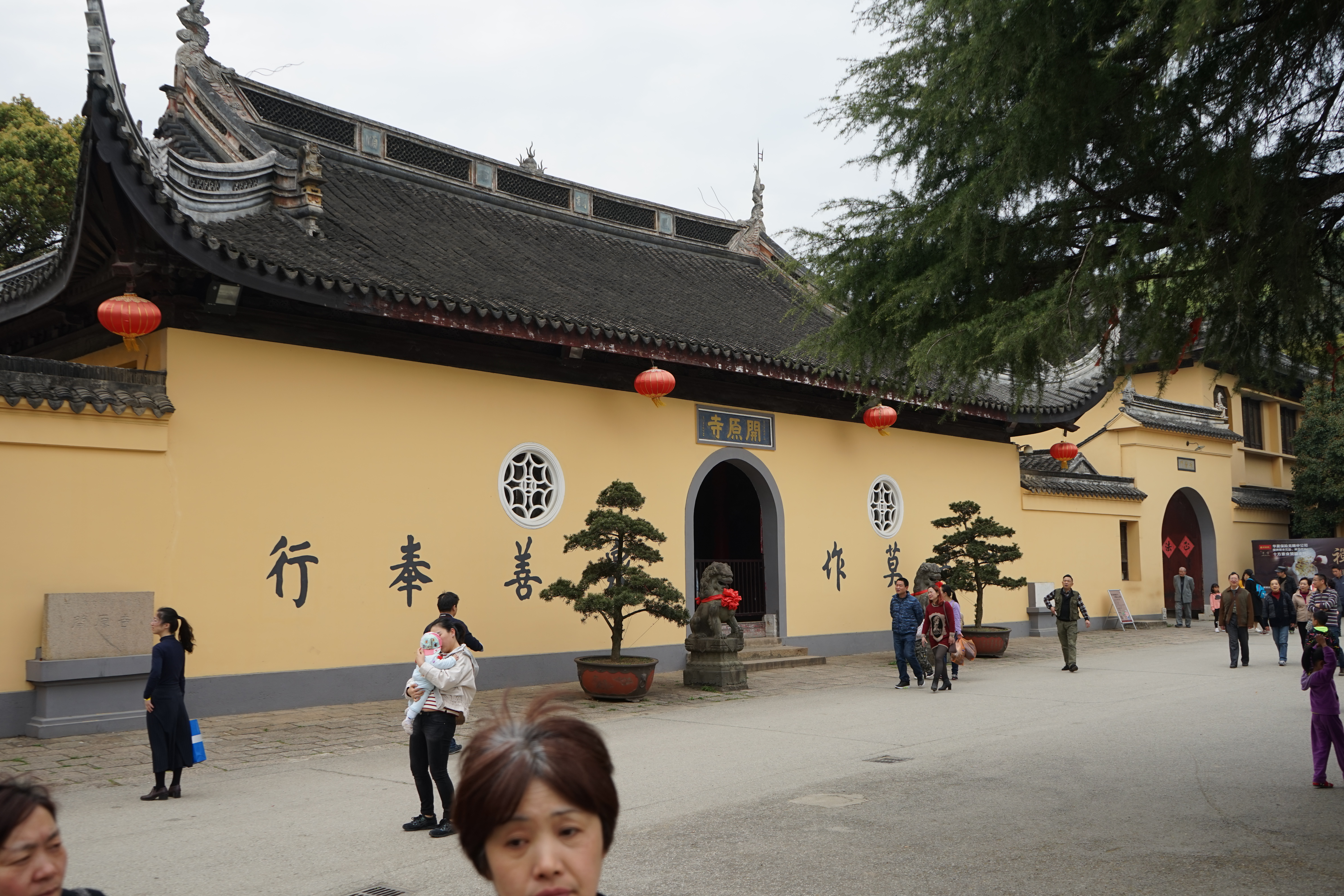 Kaiyuan Temple (gate). In Plum Garden scenic area, Wuxi.